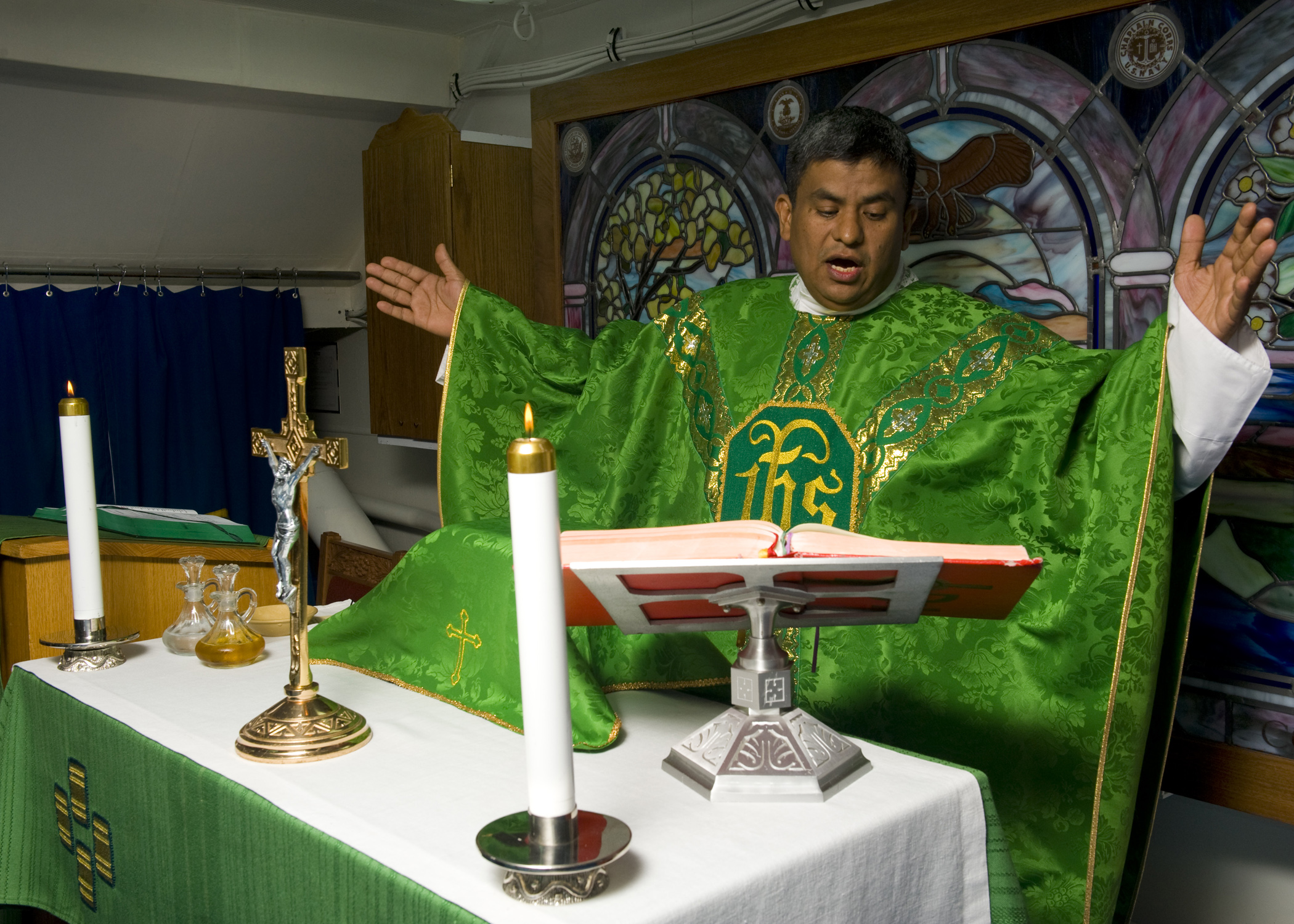 ARABIAN SEA (Oct. 26, 2011) Lt. Jose Bautistarojas conducts Roman Catholic Mass in the chapel aboard the Nimitz-class aircraft carrier USS John C. Stennis (CVN 74). John C. Stennis is deployed to the U.S. 5th Fleet area of responsibility conducting maritime security operations and support missions as part of Operation Enduring Freedom and New Dawn. (U.S. Navy photo by Mass Communication Specialist 3rd Class Lex T. Wenberg/Released)